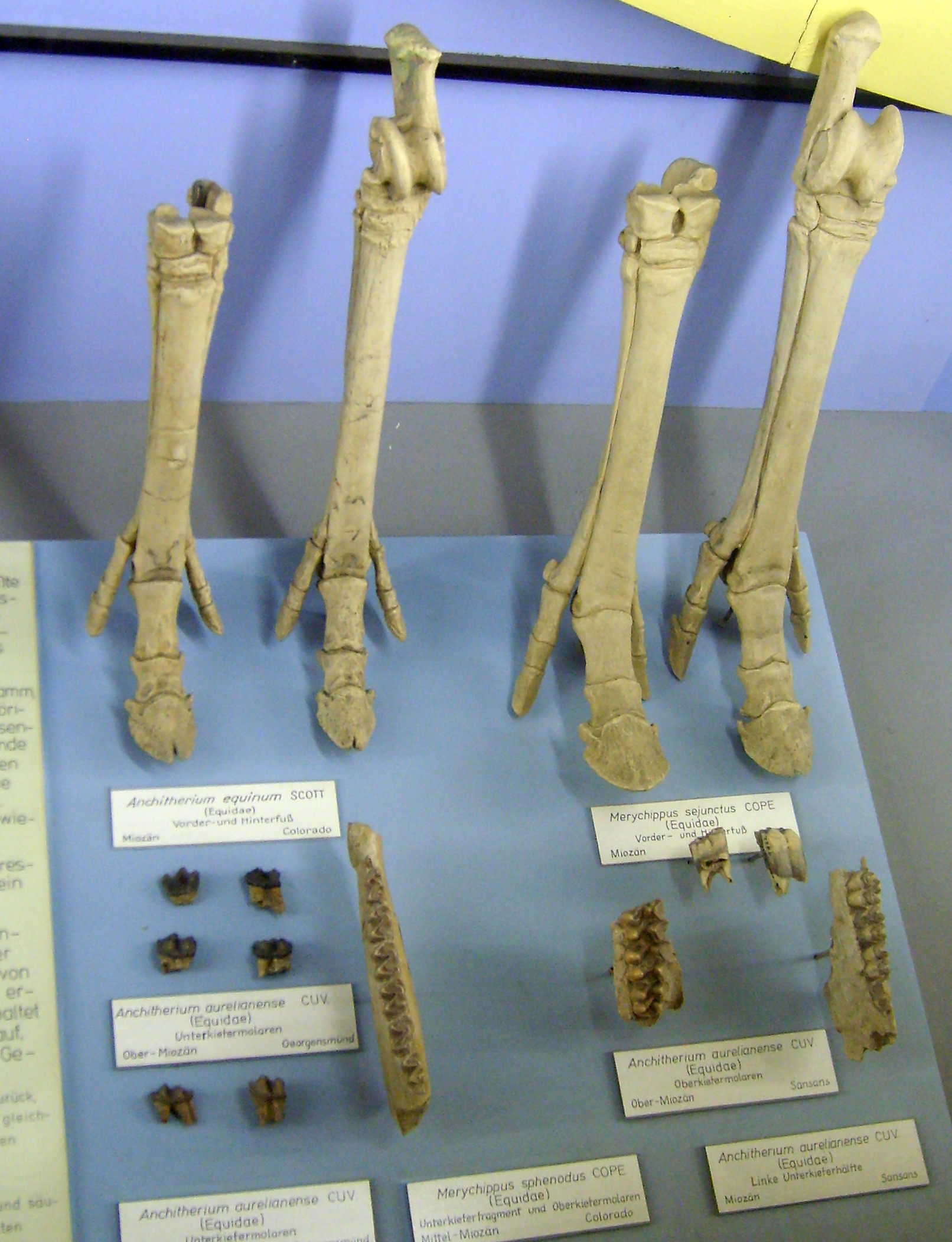 Anchitherium aurelianense, A. equinum (now Hypohippus equinus), Merychippus sejunctus, and M. sphenodus fossils in Museum für Naturkunde, Berlin.